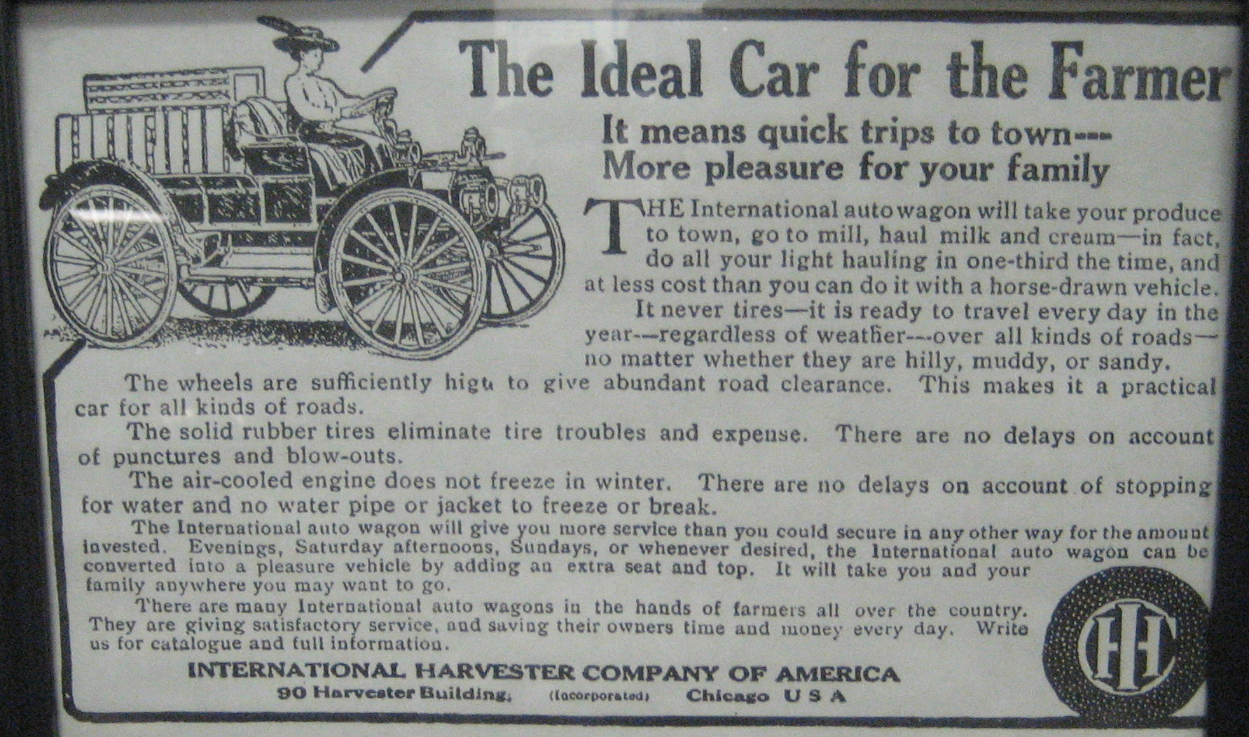 Reproduction of 1908 advertisement International automobile on display at Tallahassee Automobile Museum.